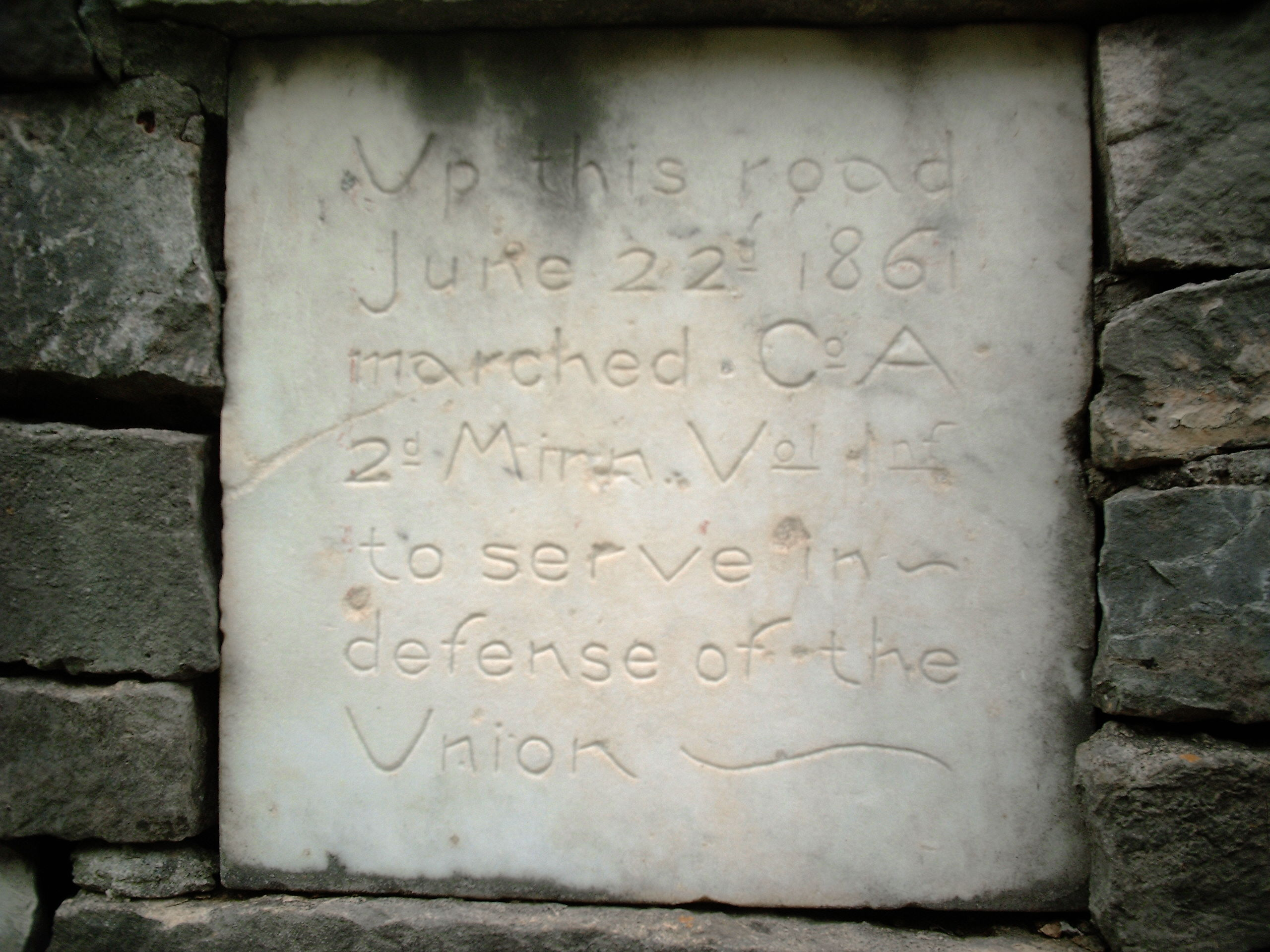 Photo I took 2006-05-02 of a Civil War monument in Chatfield, Minnesota. CC & GFDL.